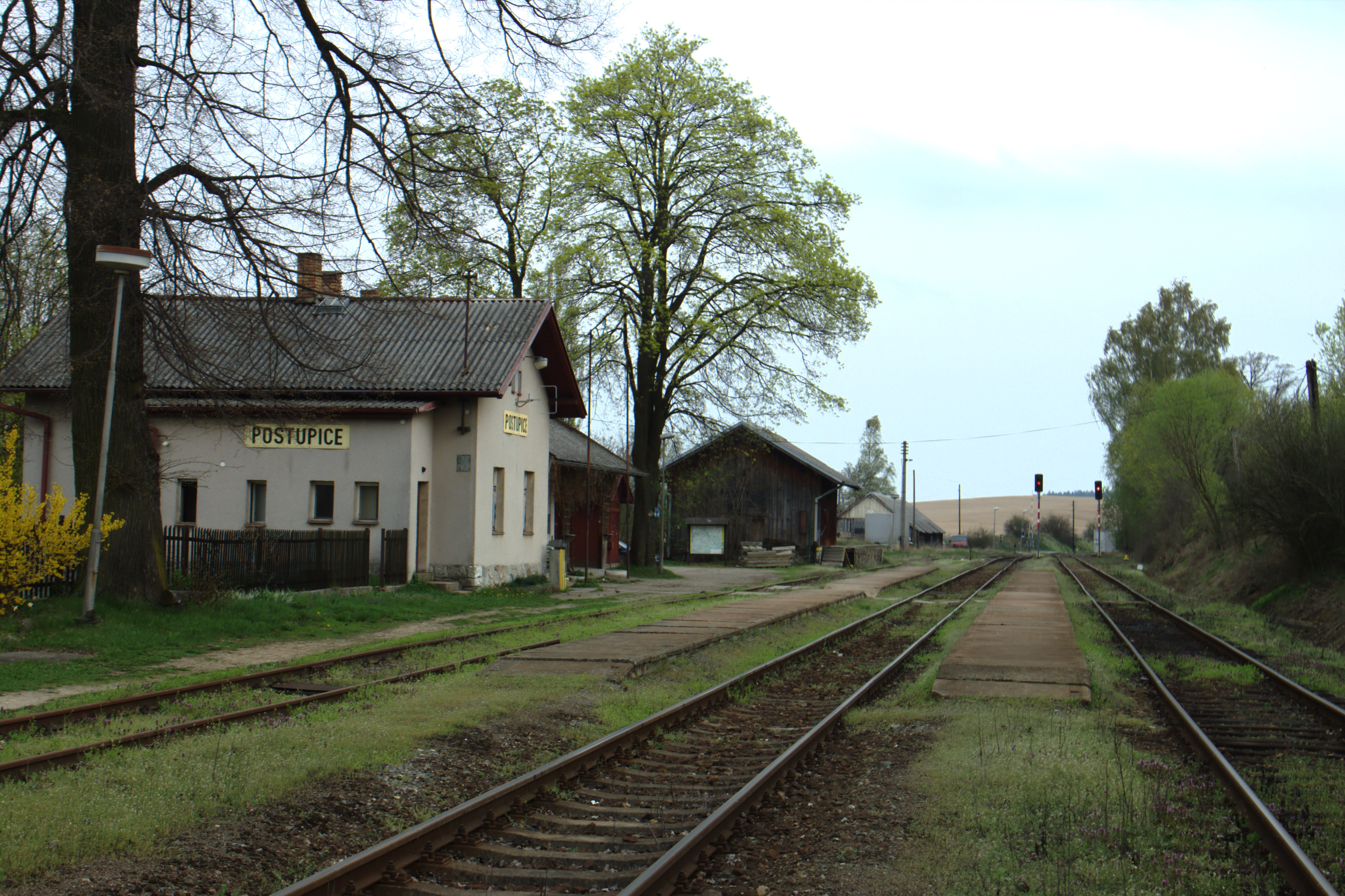 Postupice train station located between the town of Postupice and the village of Lísek, Central Bohemian Region, CZ